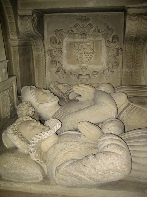 St Mary's parish church, Bruton, Somerset: part of the chest tomb of Sir Maurice Berkeley (died 1581) and his two wives. Sir Maurice was Standard Bearer to Henry VIII, Edward VI and Queen Elizabeth I. Bruton Abbey and Church were granted to Sir Maurice in 1546 and his family eventually became Baron Berkeley of Stratton (1658), acquiring land in London for their townhouse, and giving their name to Berkeley Square, Stratton Street and Bruton Street in Mayfair. His wives died in 1559 and 1585. See brass plaque Arms: Quarterly of 4: 1: Berkeley 2: Botetourt (wife of his great-great-great-grandfather Maurice Berkeley (1333-1361) Catherine de Botetourt, daughter and heiress of John de Botetourt, 2nd Baron Botetourt (c.1318-1386) by his wife Joyce la Zouche, daughter and eventual heiress of William la Zouche, 1st Baron Zouche of Mortimer) 3: Strange (?) a Botetourt heiress? 4: Zouche